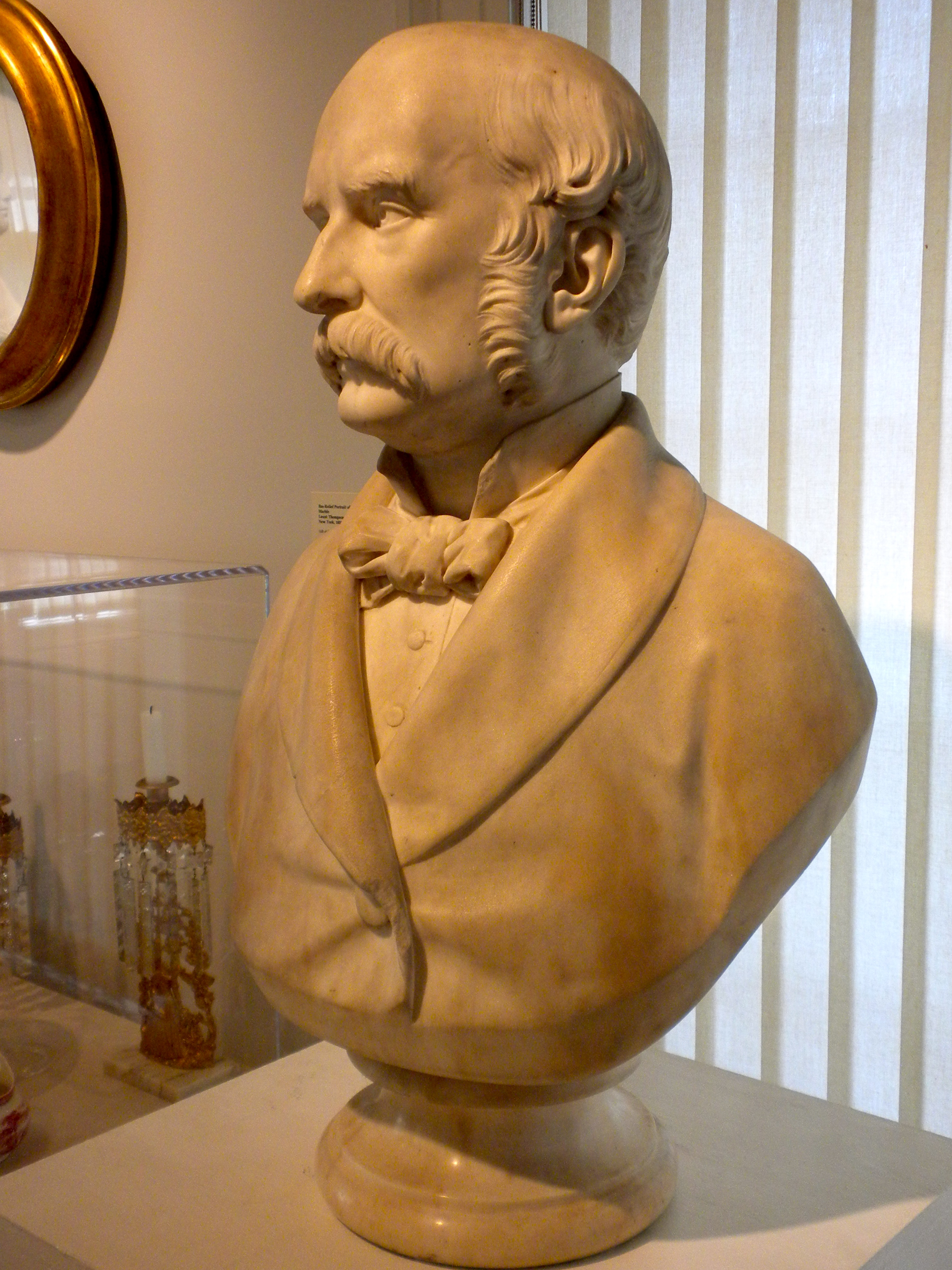 Bust of Otto Goldschmidt, composer, pianist, and husband of Jenny Lind in the American Swedish Museum in FDR Park in Philadelphia. The museum information card reads: "Bust of Otto Goldschmidt Husband of Jenny Lind Joseph Durham 1814-1877 Marble England 1877 Gift of Ernest Goldschmidt 1982.428" Lind kept a "matching" bust of herself at their home in Malvern, by the same sculptor, but sculpted in 1850. Both busts are in the same museum.